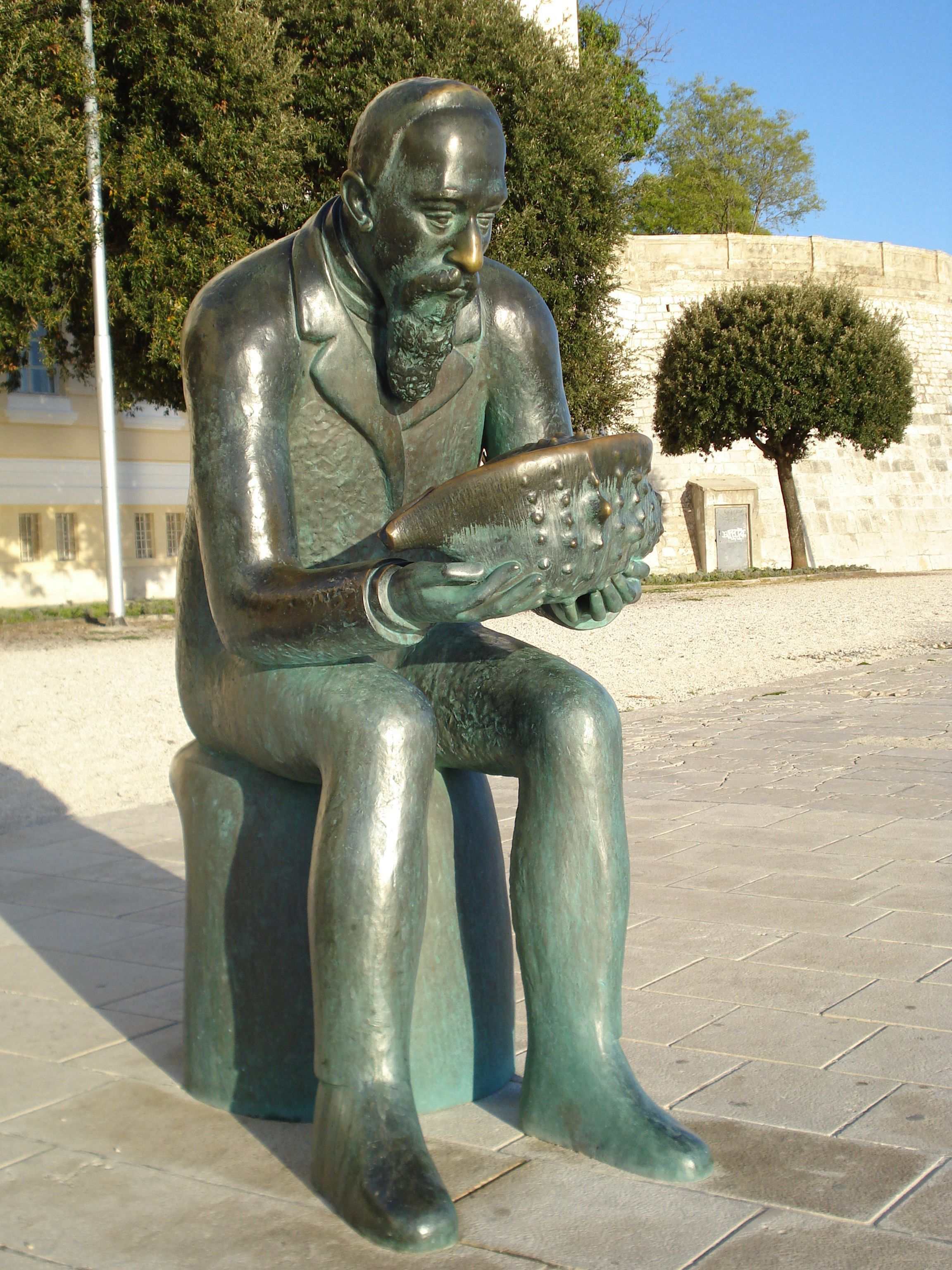 Sculpture of Spiridon Brusina in Zadar. Made by Ratka Petrića in 2005.